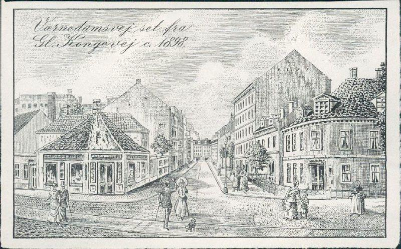 Vlrnedamsvej seen from Gammel Kongevej in Copenhagen, Denmark